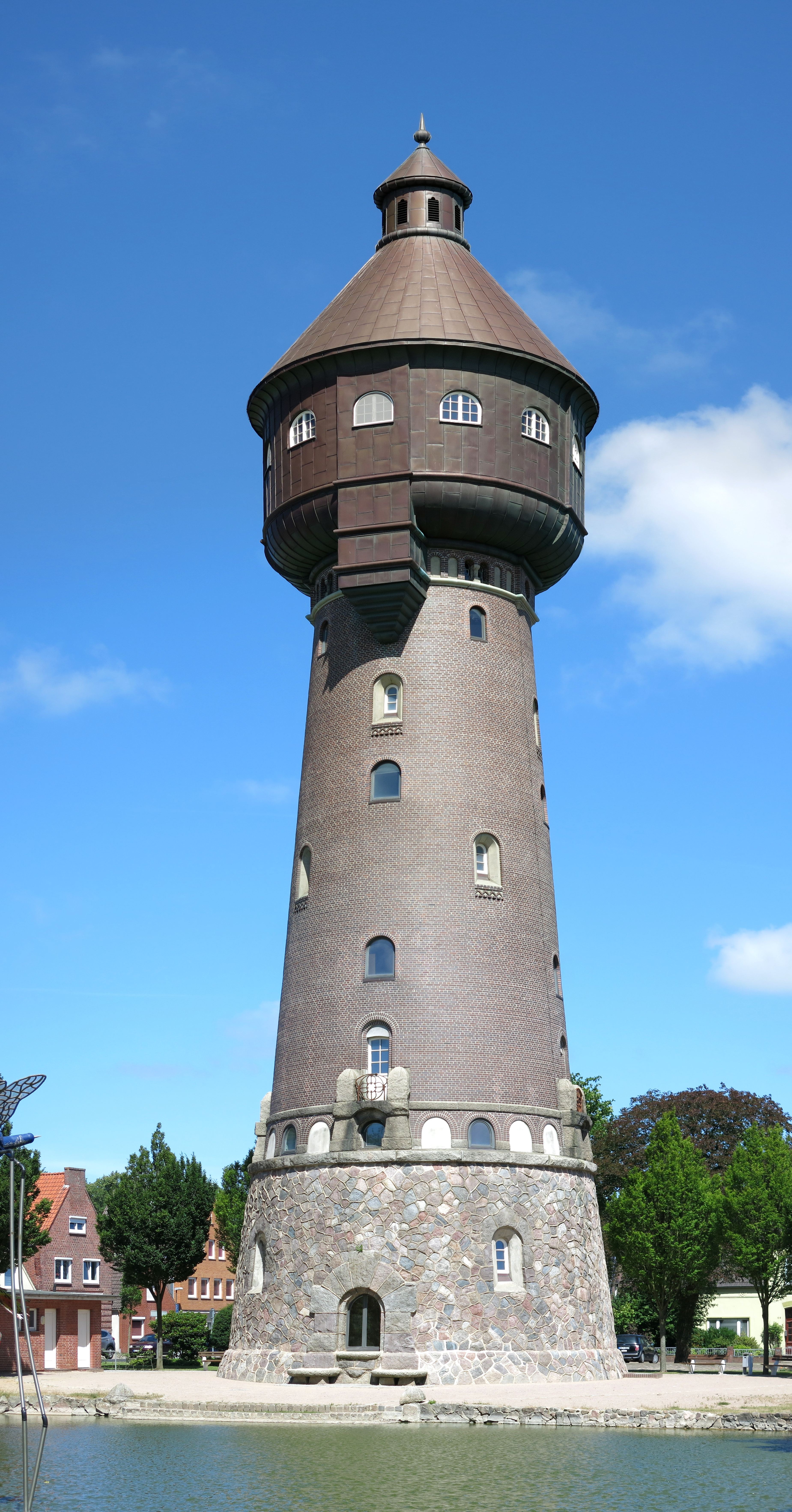 Water tower in Heide, Schlewig-Holstein, Germany